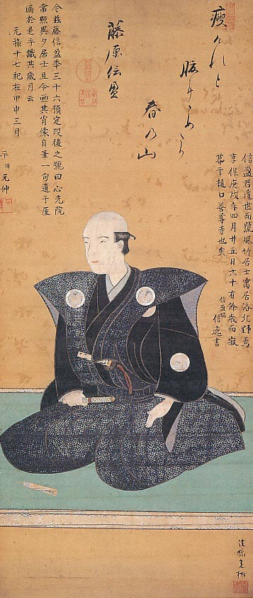 Nakamura Kuranosuke by Ogata Korin, Yamato Bunkakan, Nara, Nara, Japan